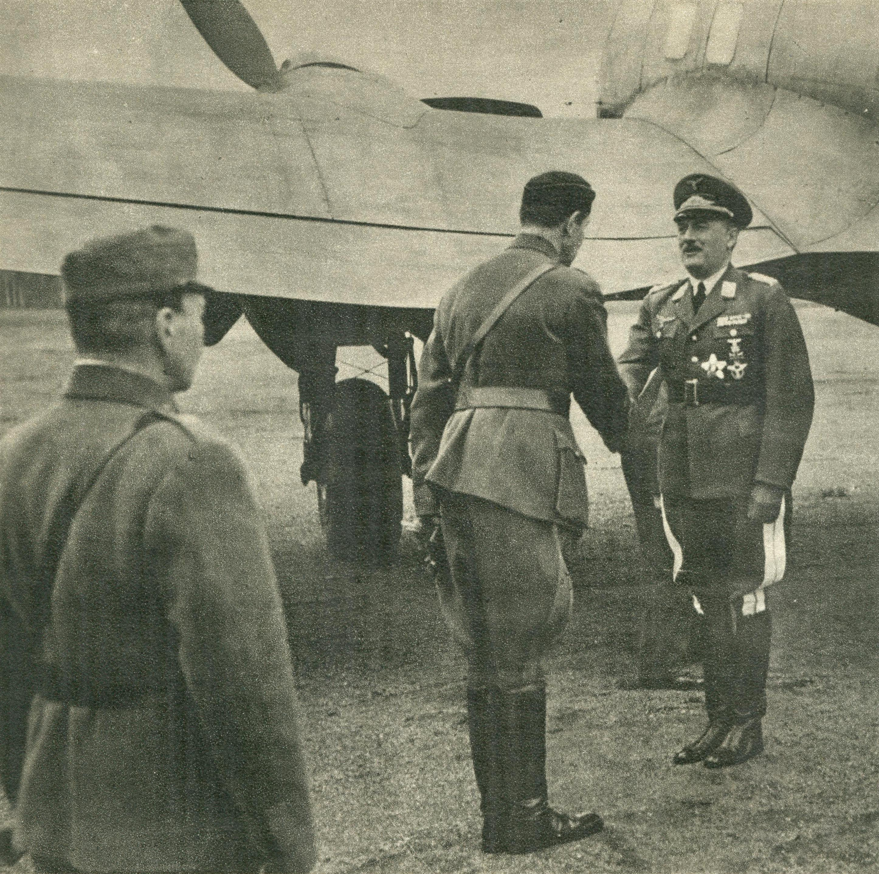 The General of the Luftwaffe, von Seidel, is met by Generals Lundqvist and Malmberg at his visit in Finland.